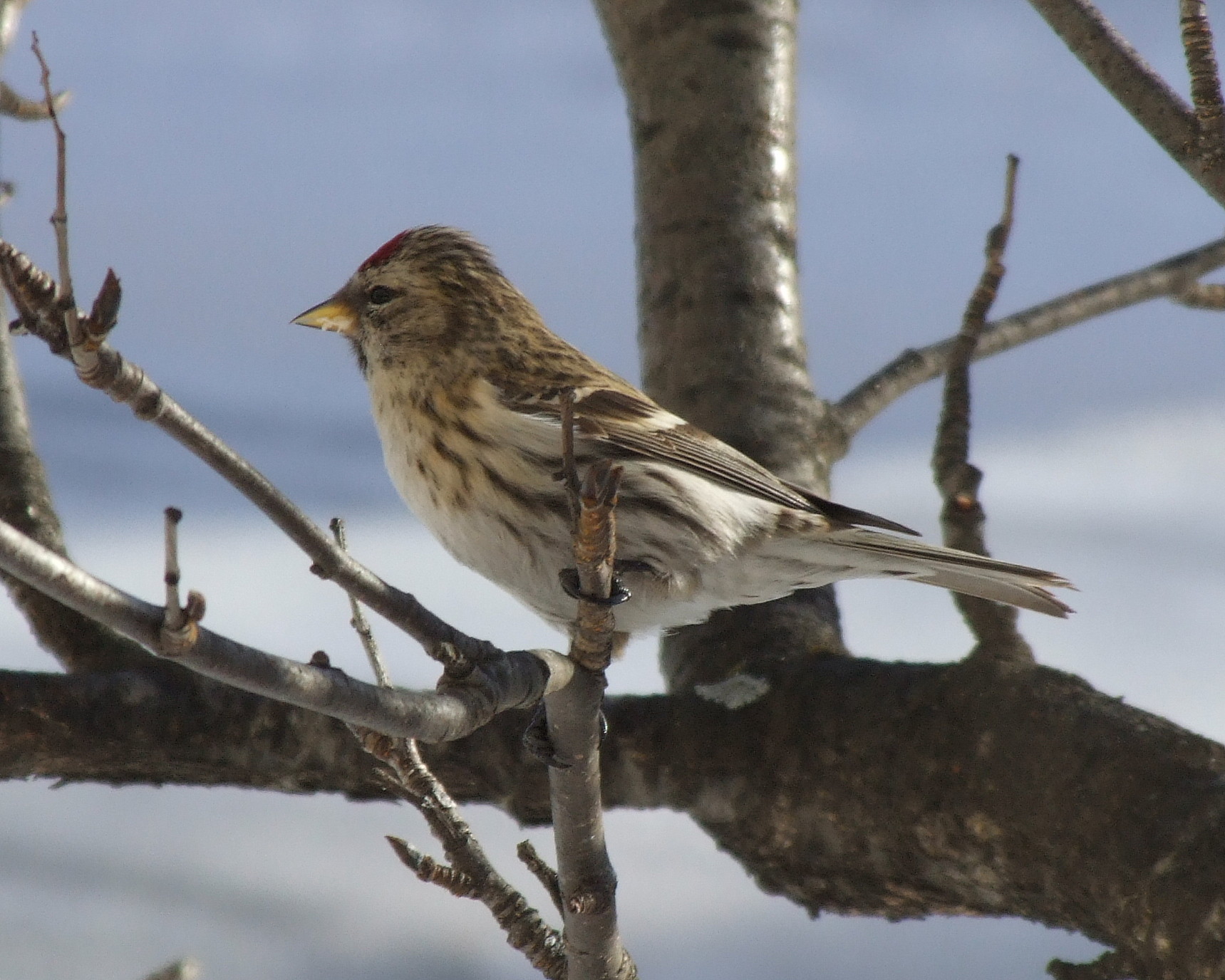 A Common Redpoll (Carduelis flammea) in Oulu, Finland